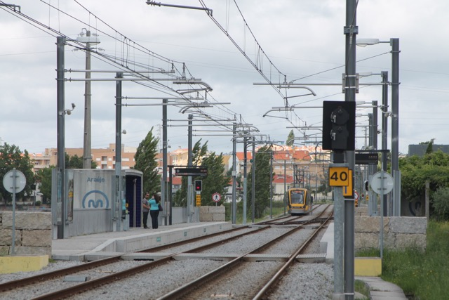 The Araújo stop of the Metro do Porto